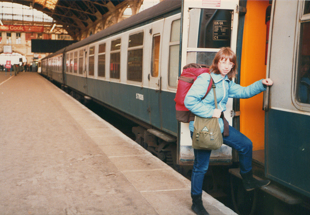 Boat train at Victoria station Before the Channel Tunnel was opened in 1994, the boat train from Victoria to Dover, using "4-CEP" corridored electric multiple units, was the quickest way for rail passengers between London and Paris. A backpacker sets off on an Interrail holiday in 1985.